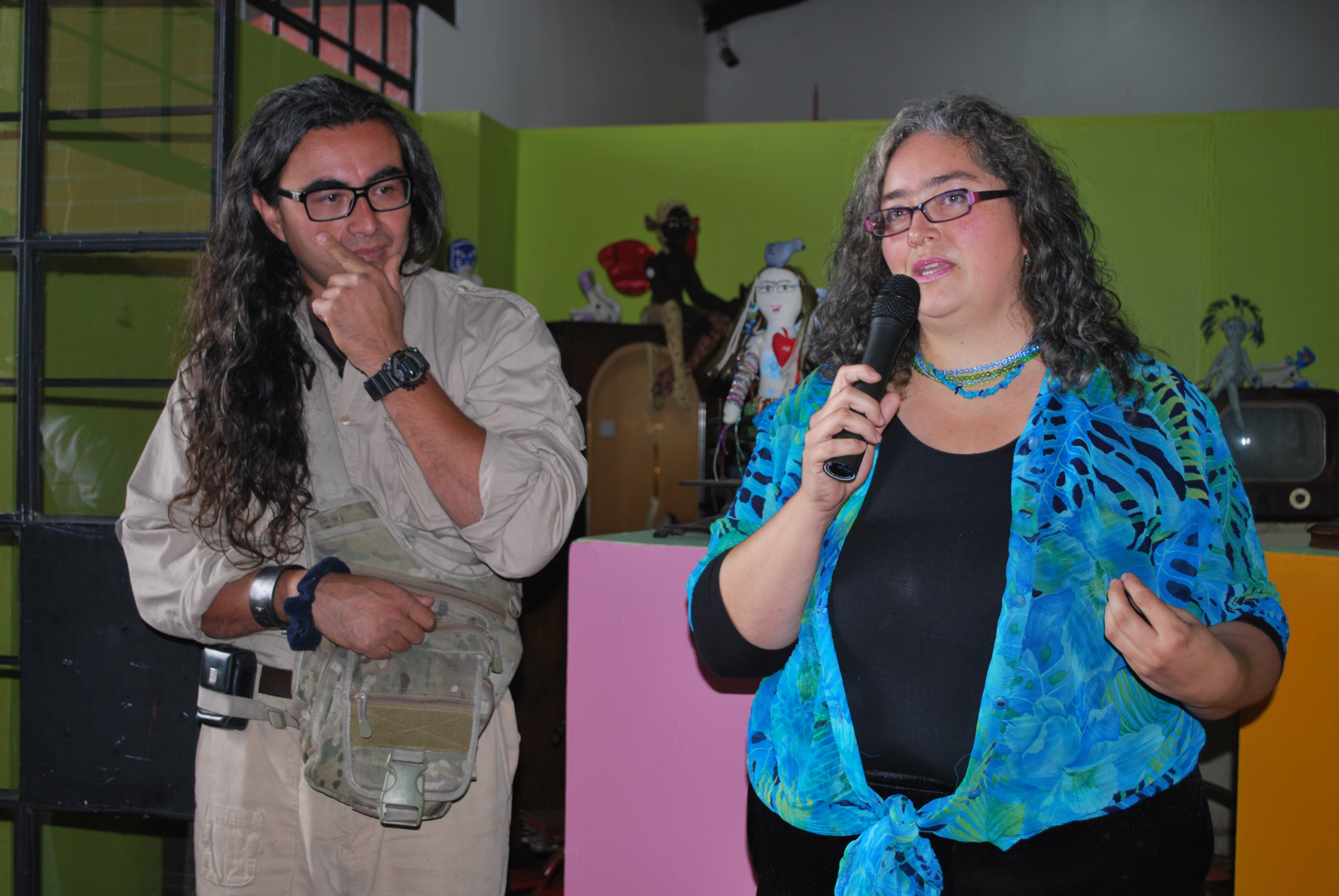 Sinhué Lucas and Ana Karen Allende at the opening of Retacitos exhibiton at the Museo de las Culturas Populares of the Centro Cultural Mexiquense in Toluca, Mexico